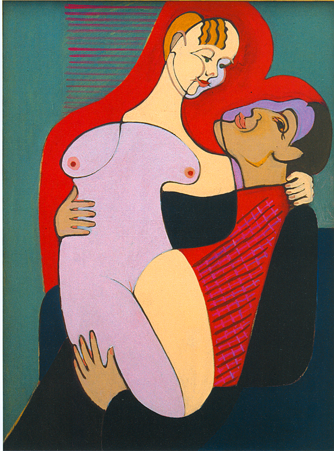 Great Lovers ( Mr and Miss Hembus) - Oil on Carvan - 151 x 112 cm -Kirchner Museum Davos